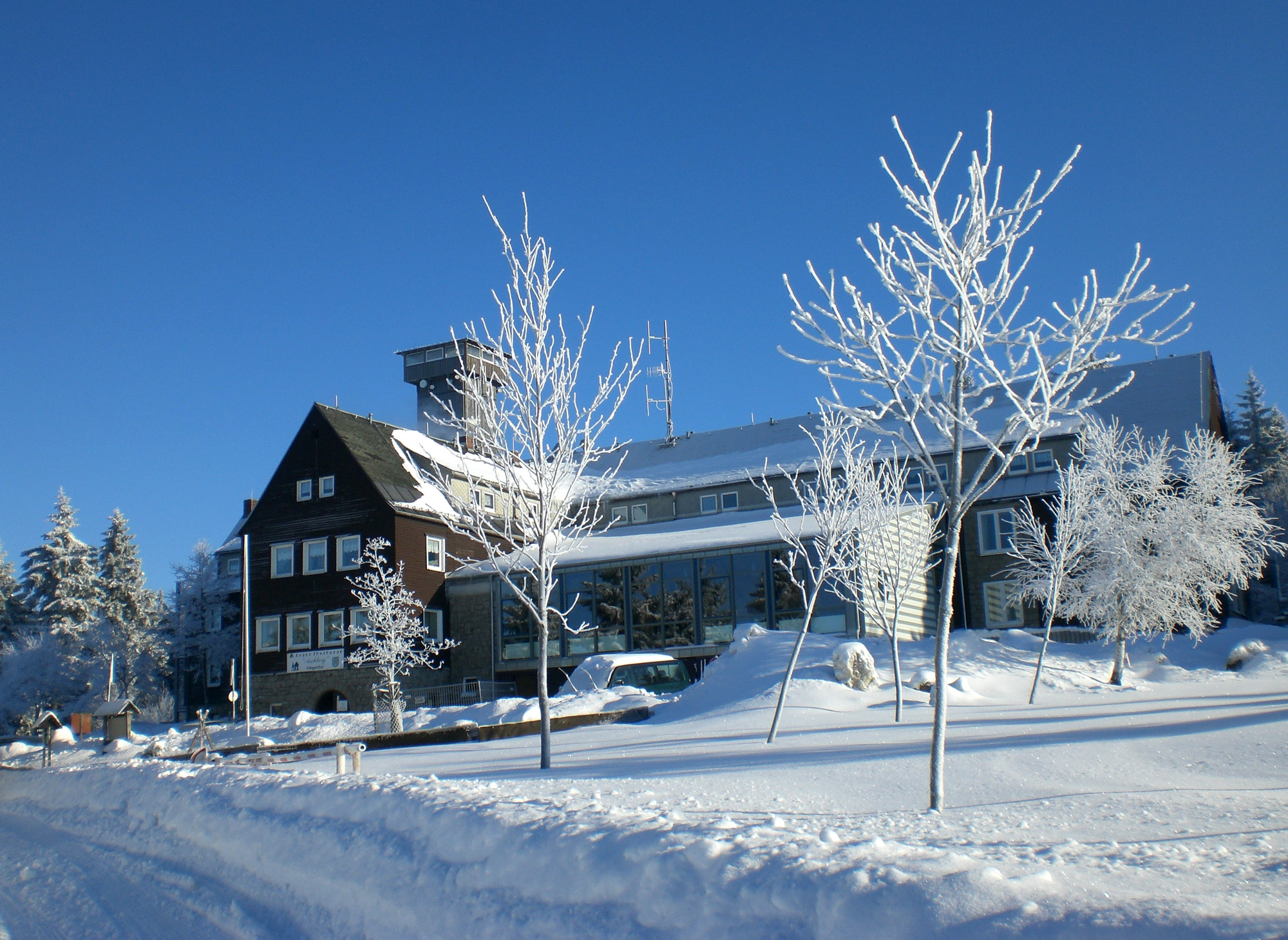 Picture of the youth hostel Klingenthal